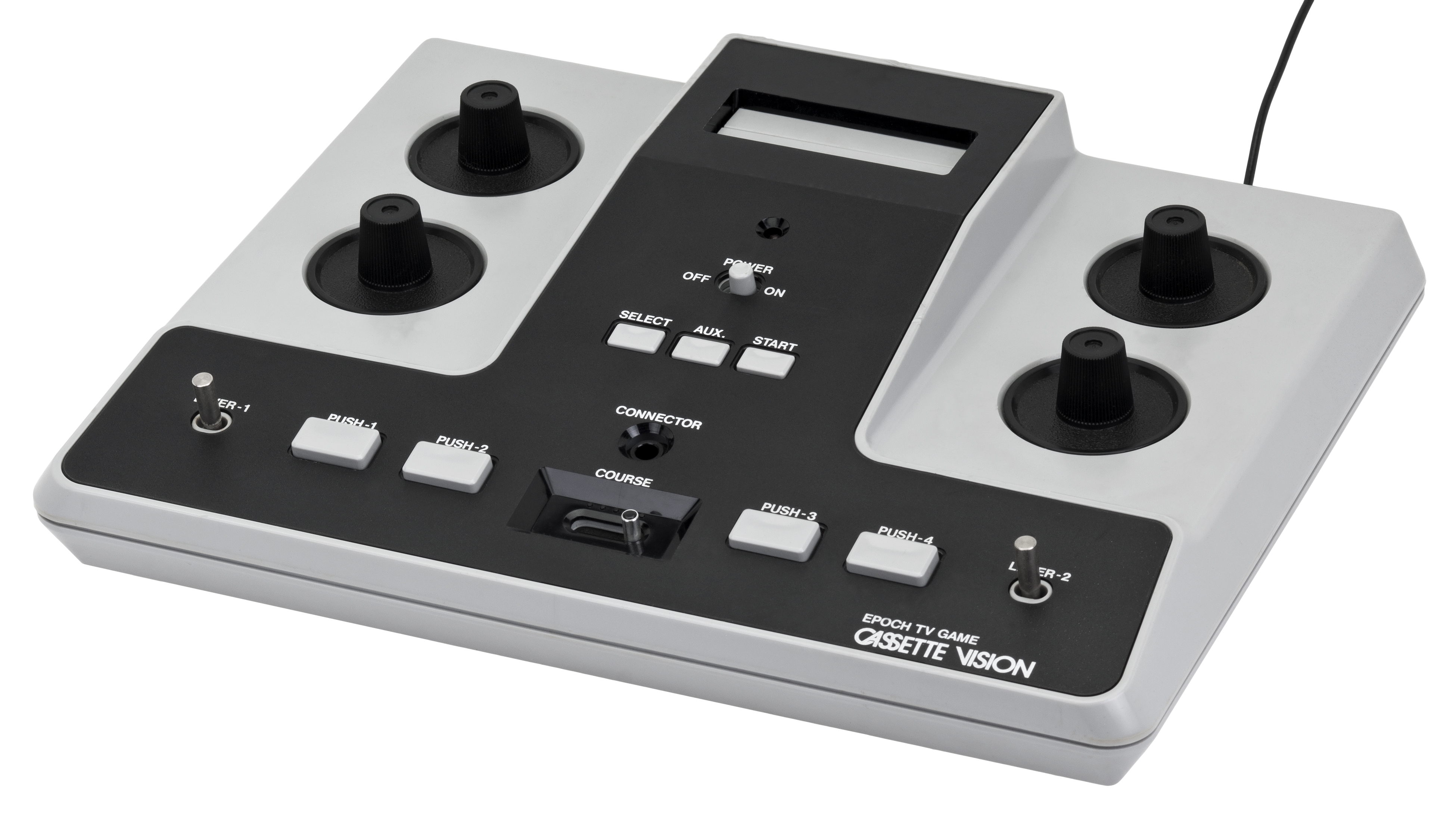 The Epoch Cassette Vision, a second generation video game console released only in Japan in 1981.